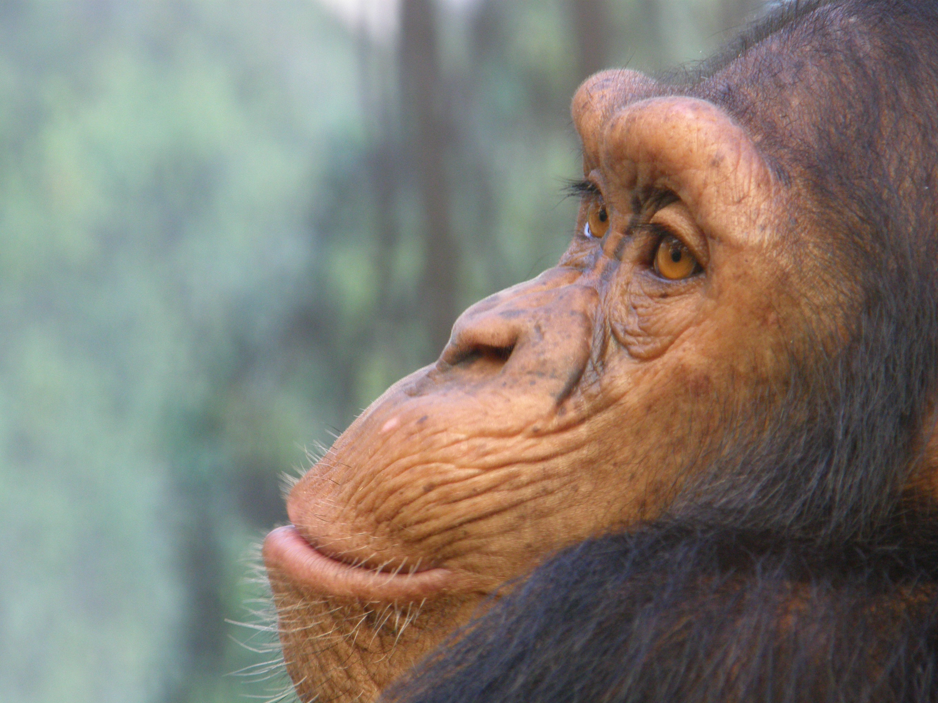 Chimpanzee, Beauval Zoo, Saint-Aignan, Loir-et-Cher, France